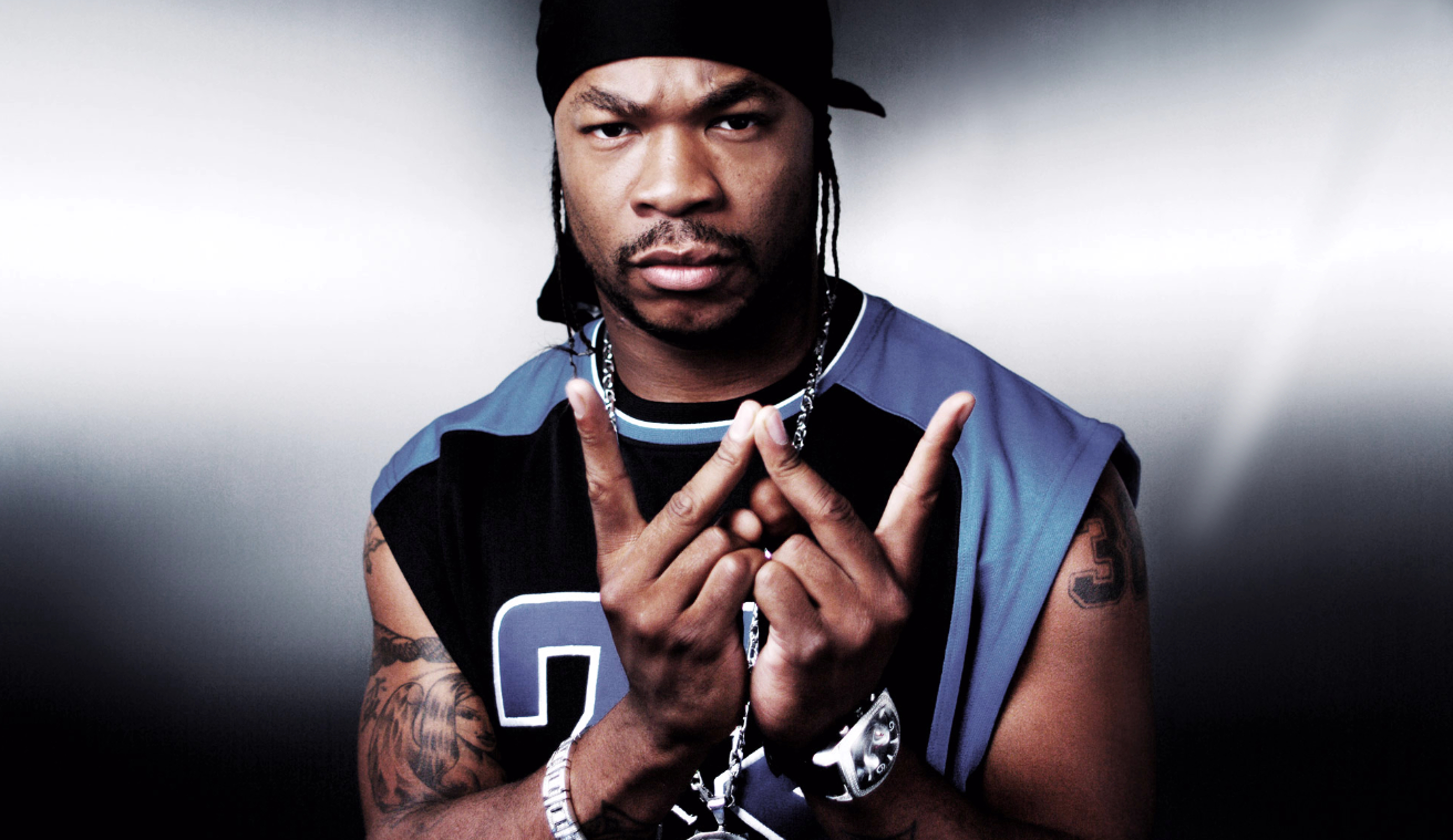 Rapper Xzibit, shot in Berlin. Xzibit posing with the W of his album Weapons of Mass Destruction, photographed by Matti Hillig